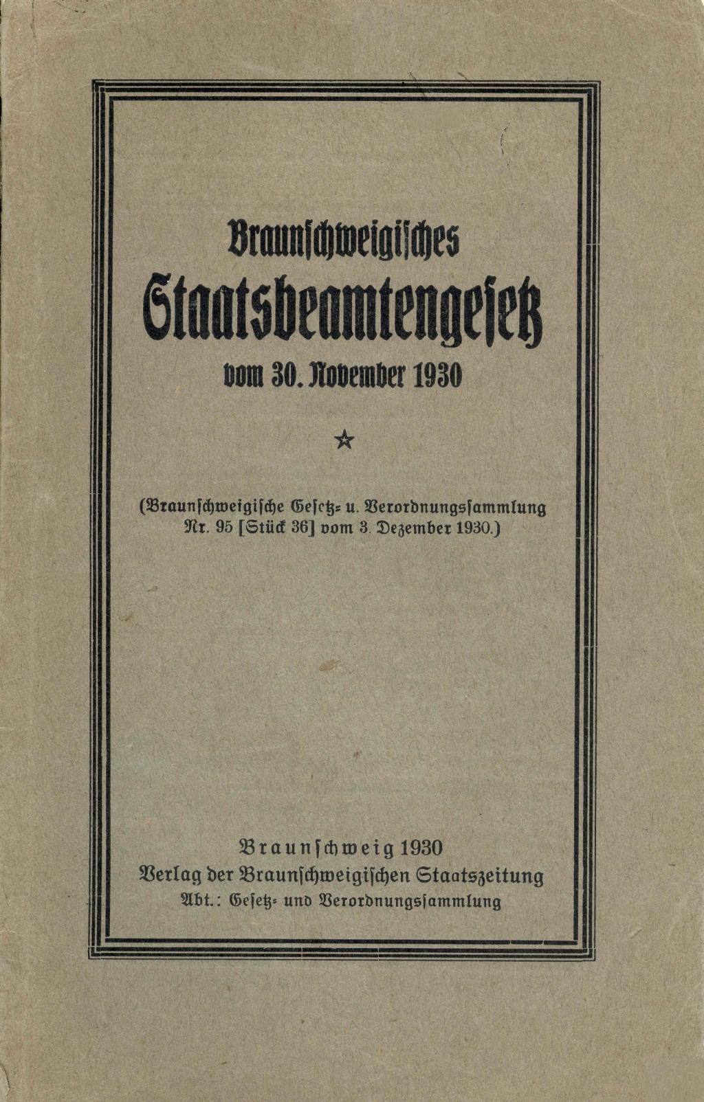 Civil Servant Law from 30 November 1930 for the Free State of Brunswick